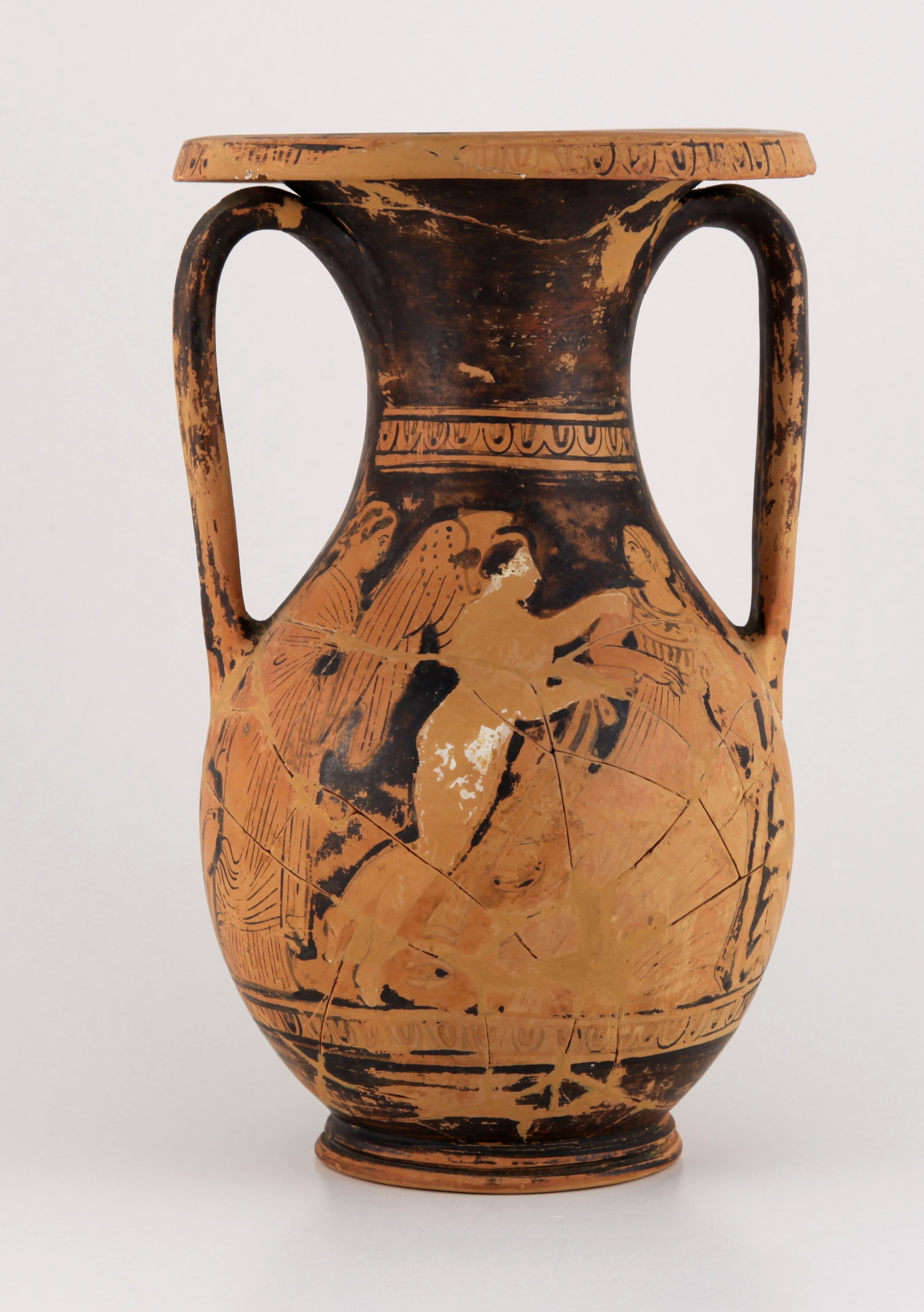 Located in museum at Kissamos, Crete, Greece